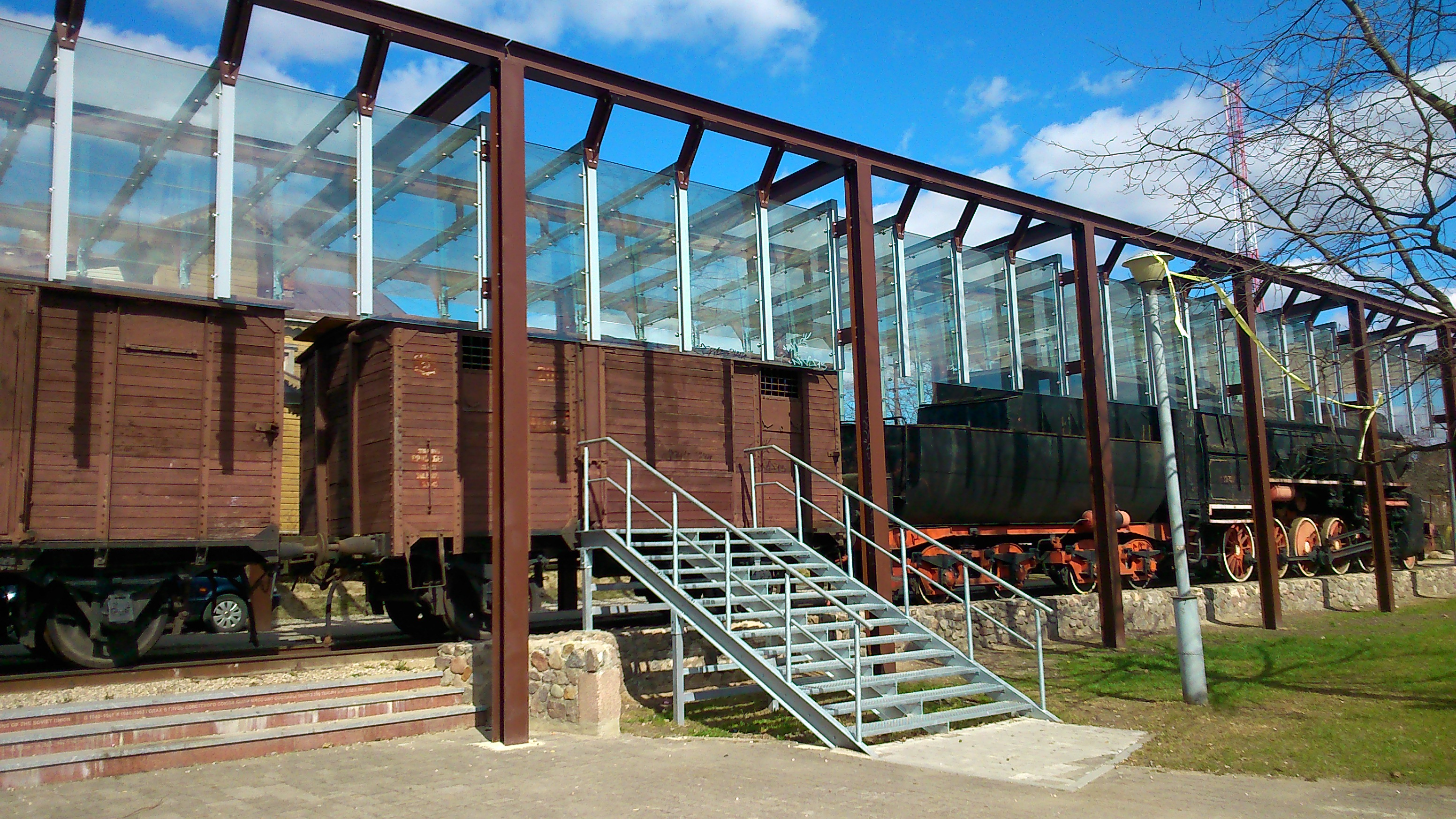 Naujoji Vilnia train station